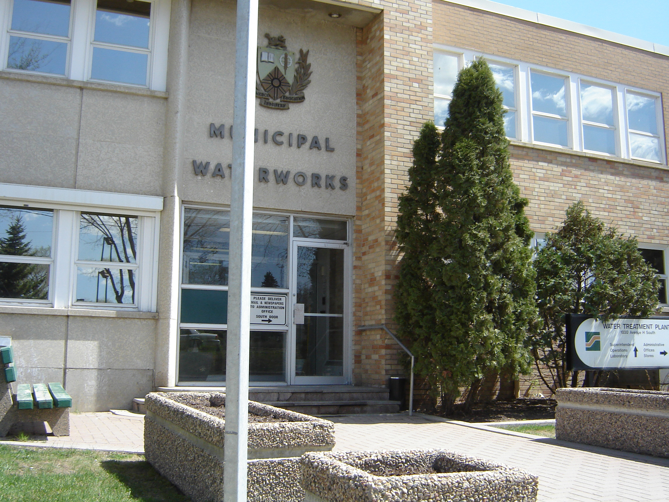 Water Treatment Plant, Municipal waterworks. Saskatoon, Saskatchewan, Canada